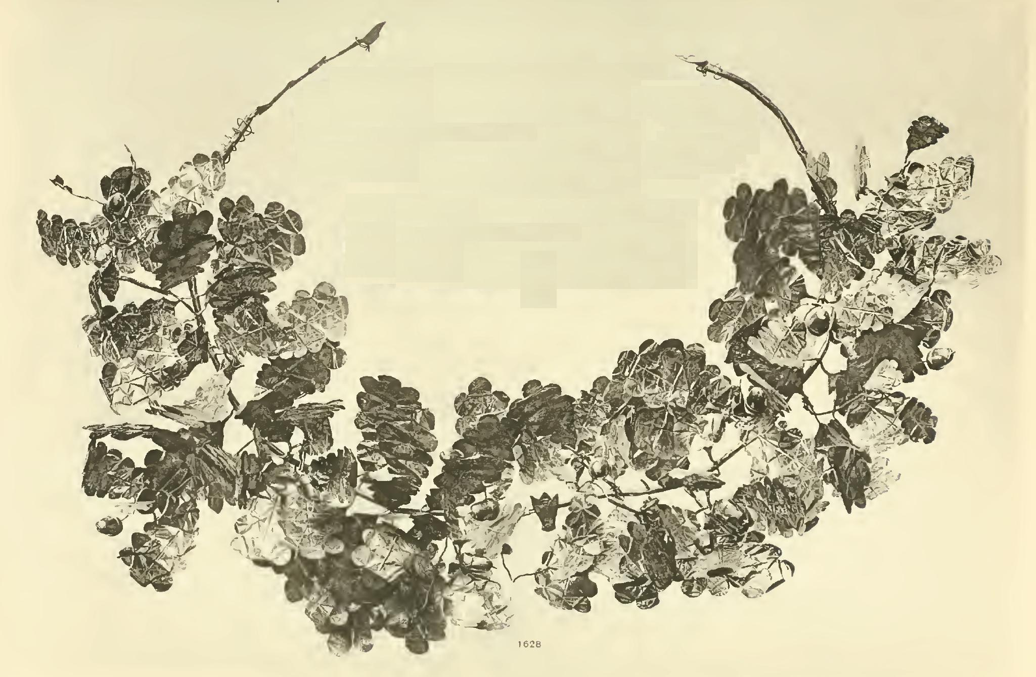 Gold wreath, composed of two stems cut transversely at one end.